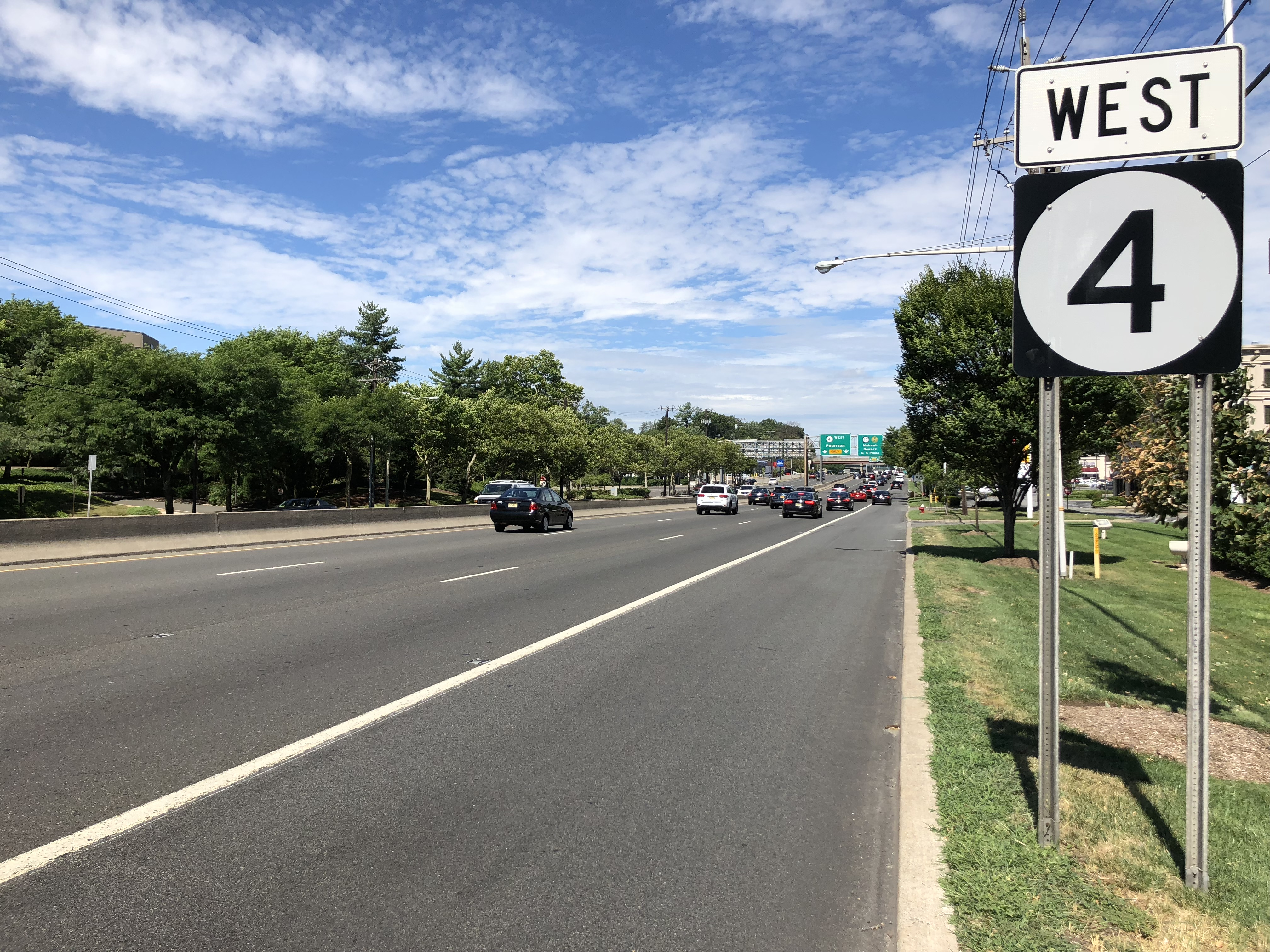 View west along New Jersey State Route 4 just west of Spring Valley Road in Paramus, Bergen County, New Jersey